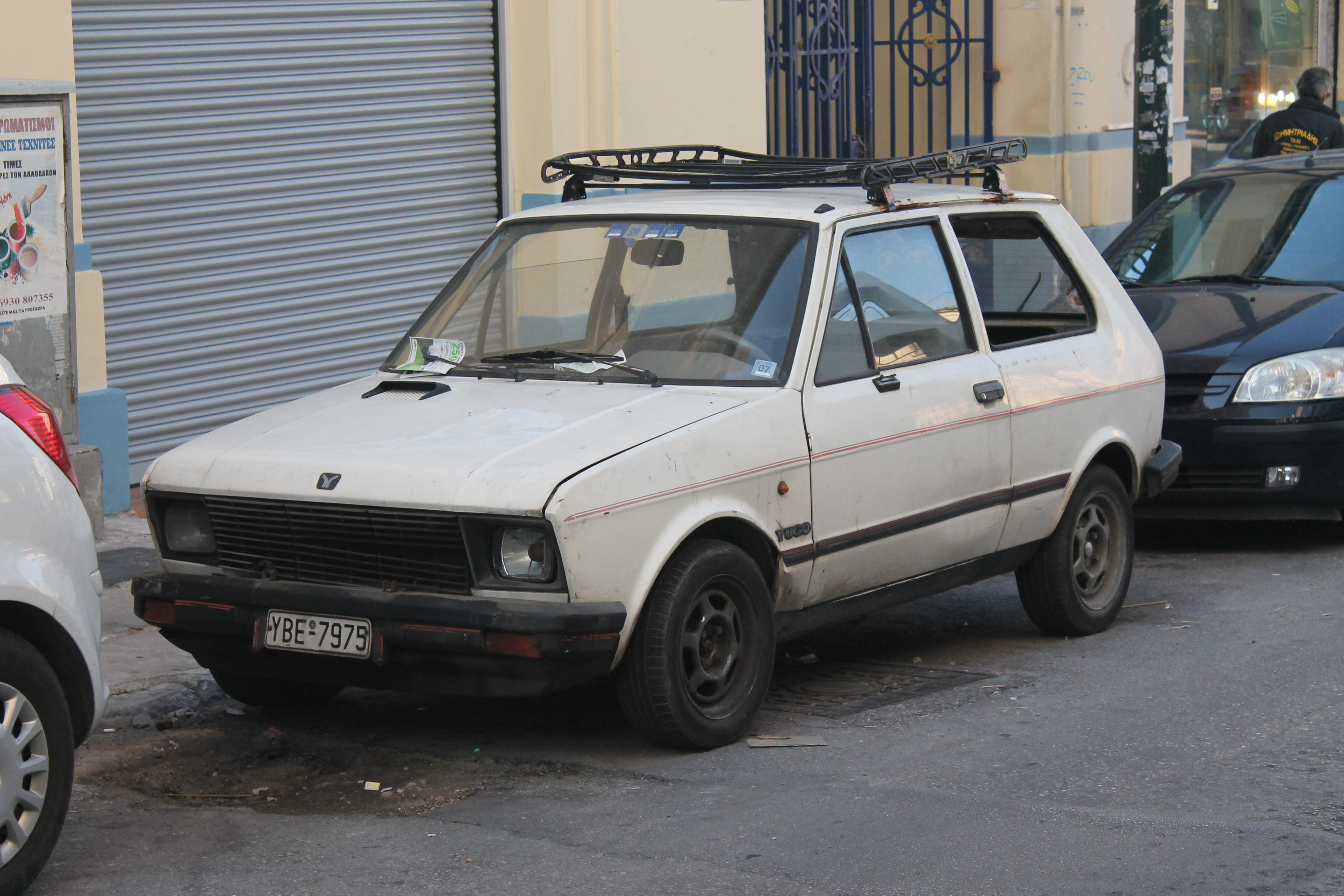 First one I've seen. Funny little chaps! This one looked shabby, with no rear window glass and bits hanging off all over, but it was nice to see a Yugoslavian car. Would've thought there'd be more, given Greece's proximity to the former Yugoslavia, but there aren't loads. Couldn't read the badge on the rear- it's either a 45, 55 or 65. Can anyone determine rough date?